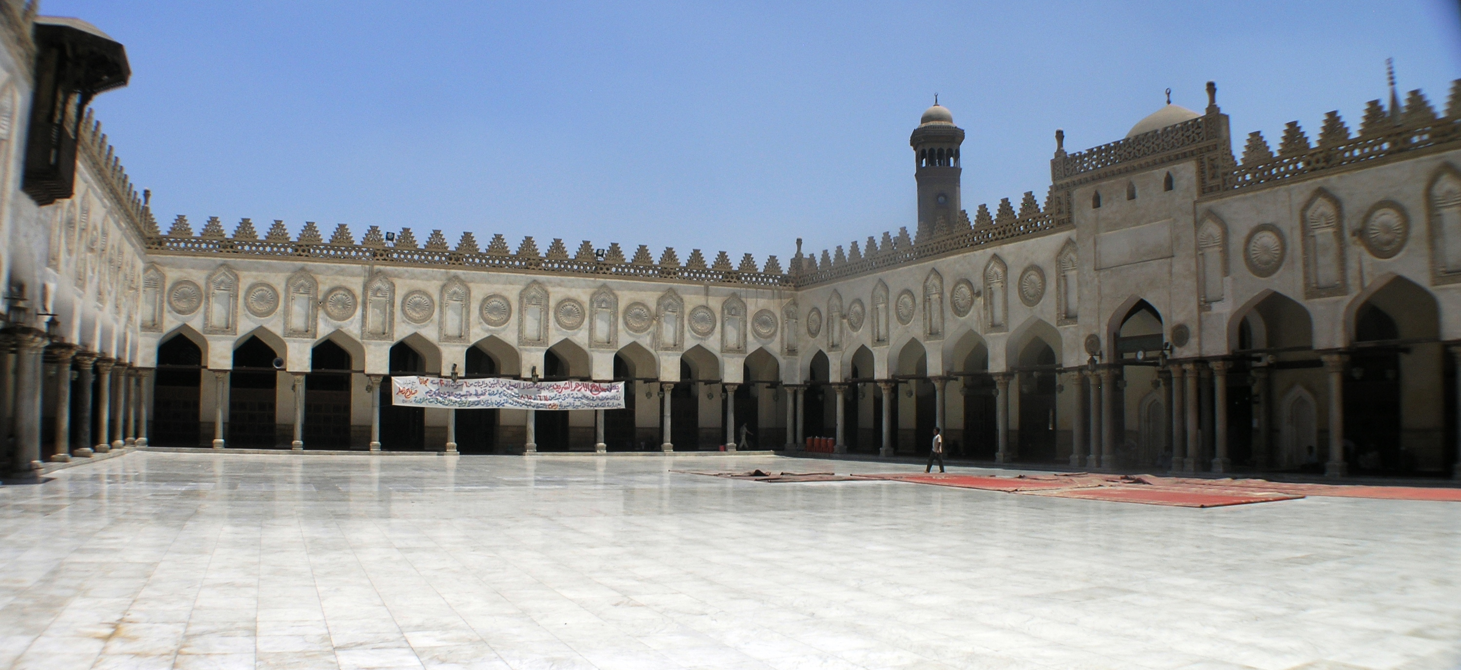 Cairo - Islamic district - Al Azhar Mosque and University central courtyard